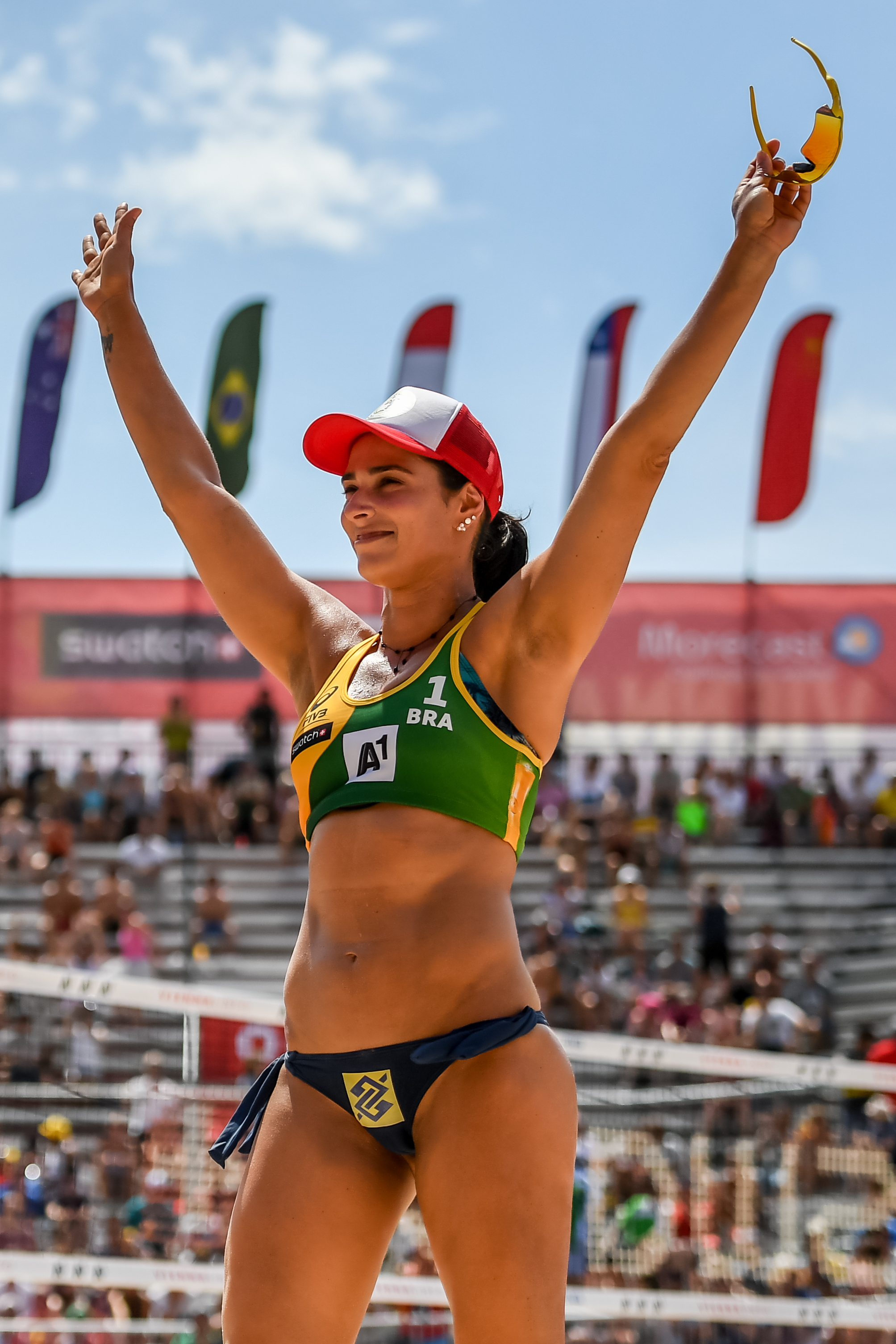 30/7/17, Vienna, Austria, sports, beach volleyball, FIVB Beach Volleyball World Championships.